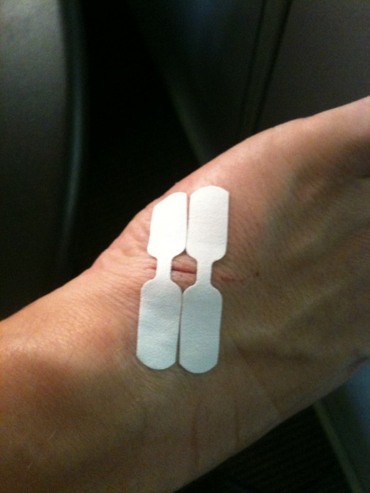 A wound on the left hand neatly held closed by two butterfly bandages.